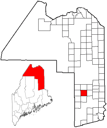 Adapted from U.S. Census Bureau maps (American FactFinder) and Wikipedia's ME county maps by Bumm13.